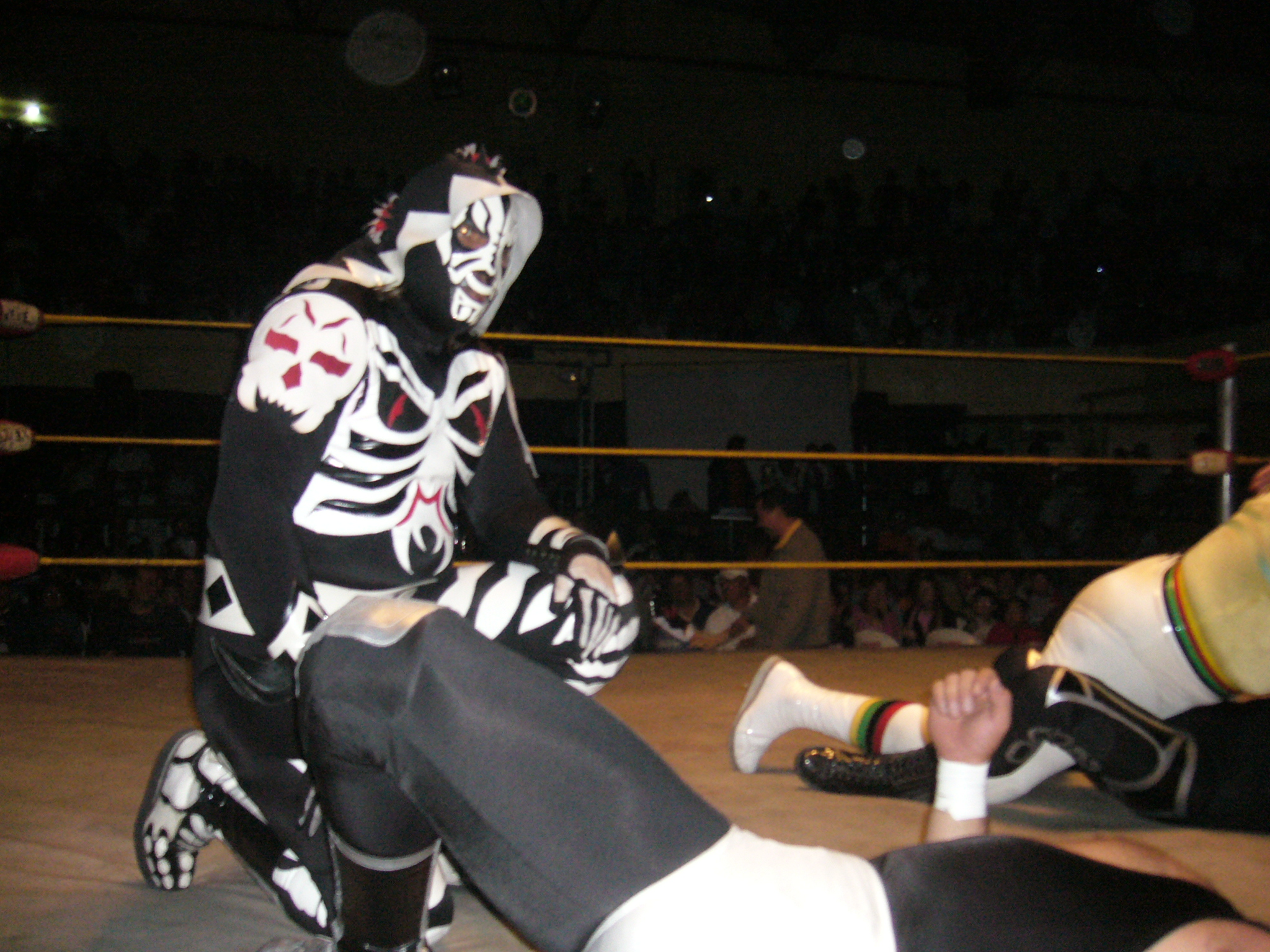 mexican wrestler/luchador W:La Parka